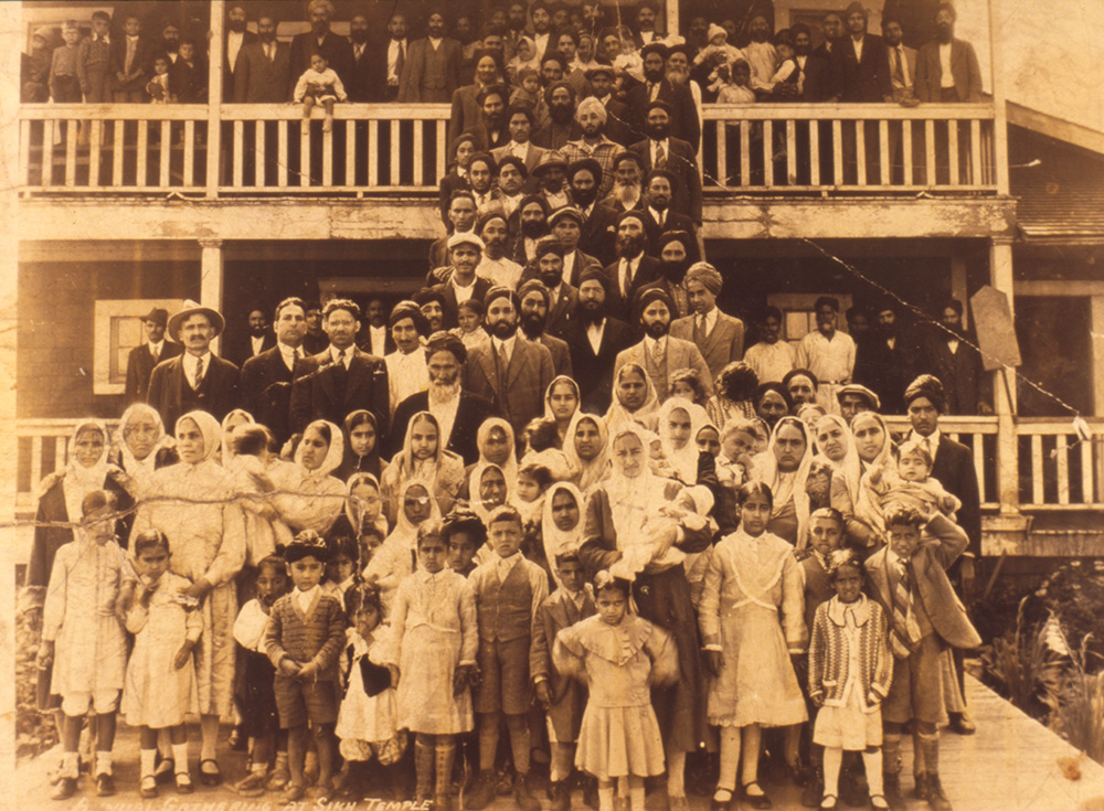 1931: Sikhs standing in front of the Queensborough gurdwara in New Westminster, Canada.